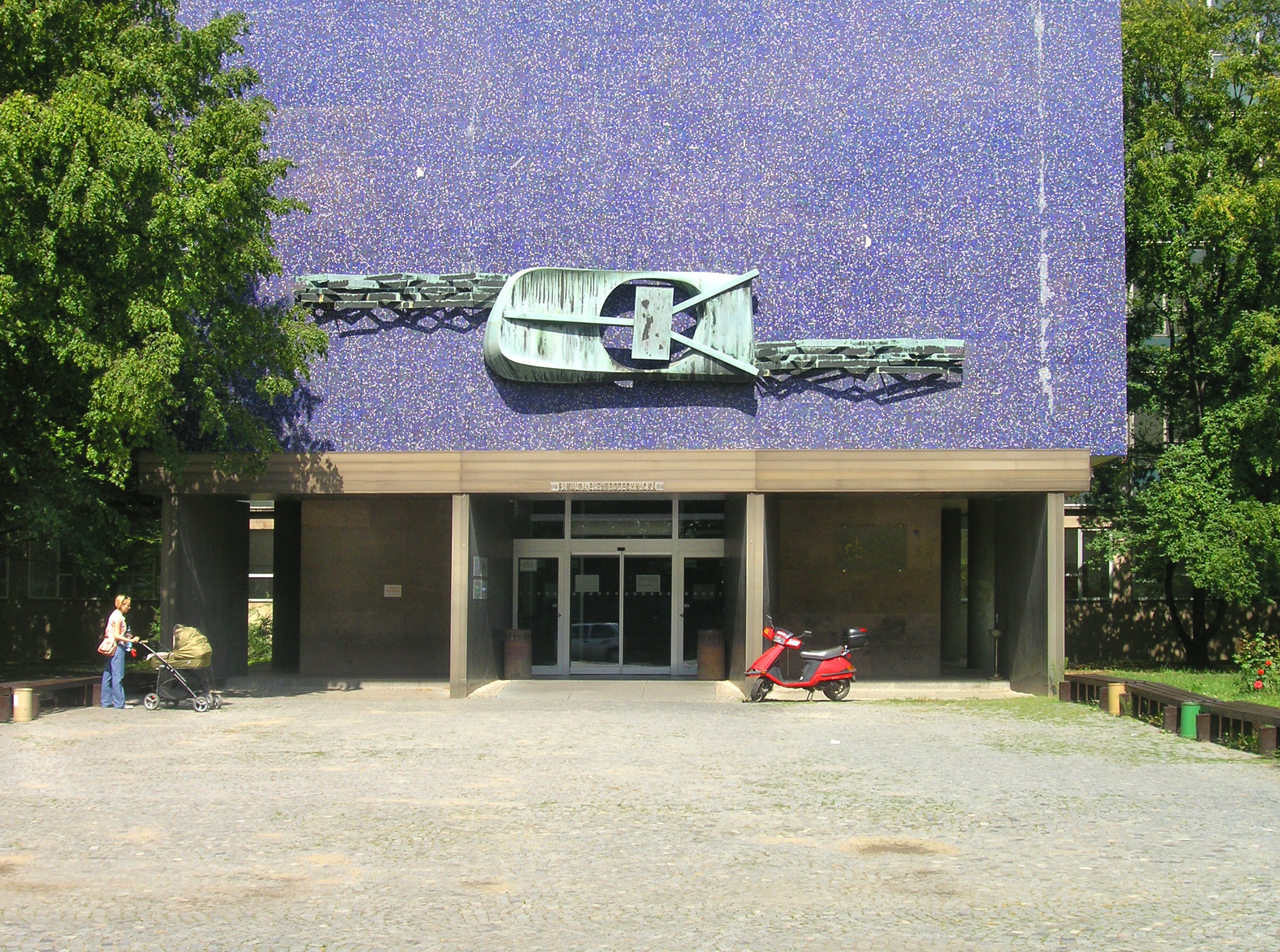 Entry of Faculty of Electrical Engineering at Technická street at Dejvice, Prague